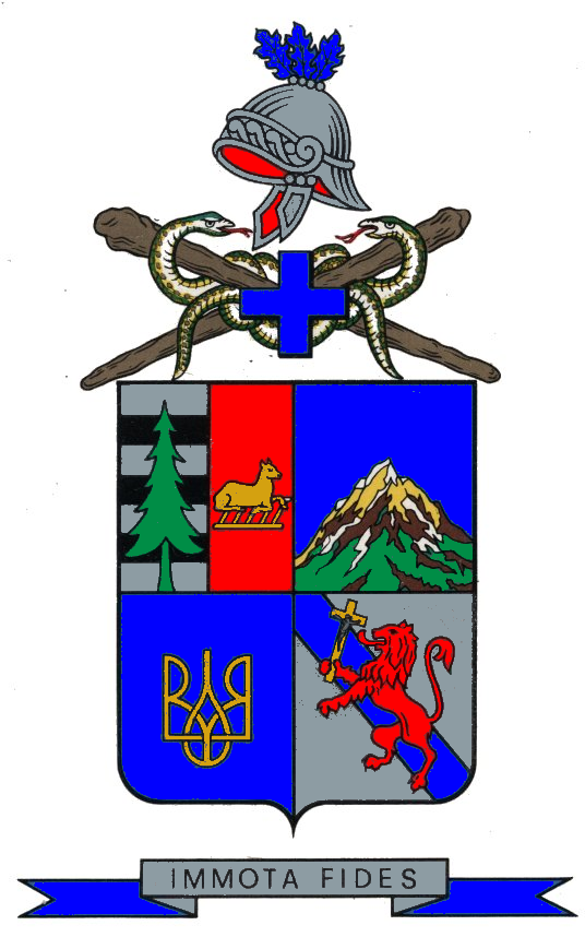 Coat of Arms of the Veterinary Corps (year 1974); Italian Army.